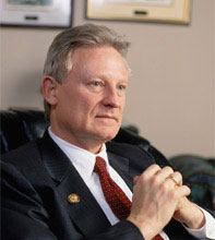 Spencer Bachus, U.S. Congressman.